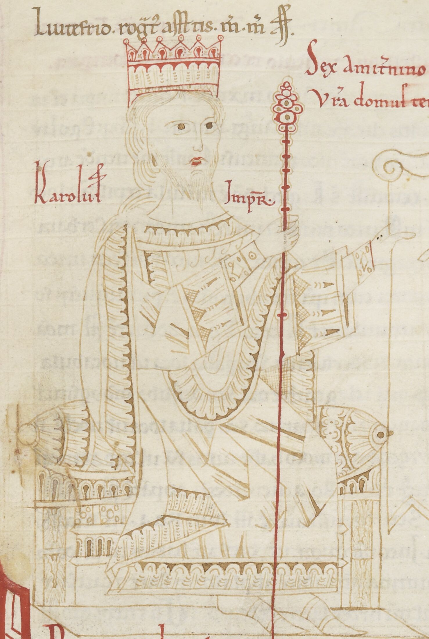 Emperor Charles III the Fat. (Bibliothèque nationale de France, Latin 5411, fol. 118, Detail)